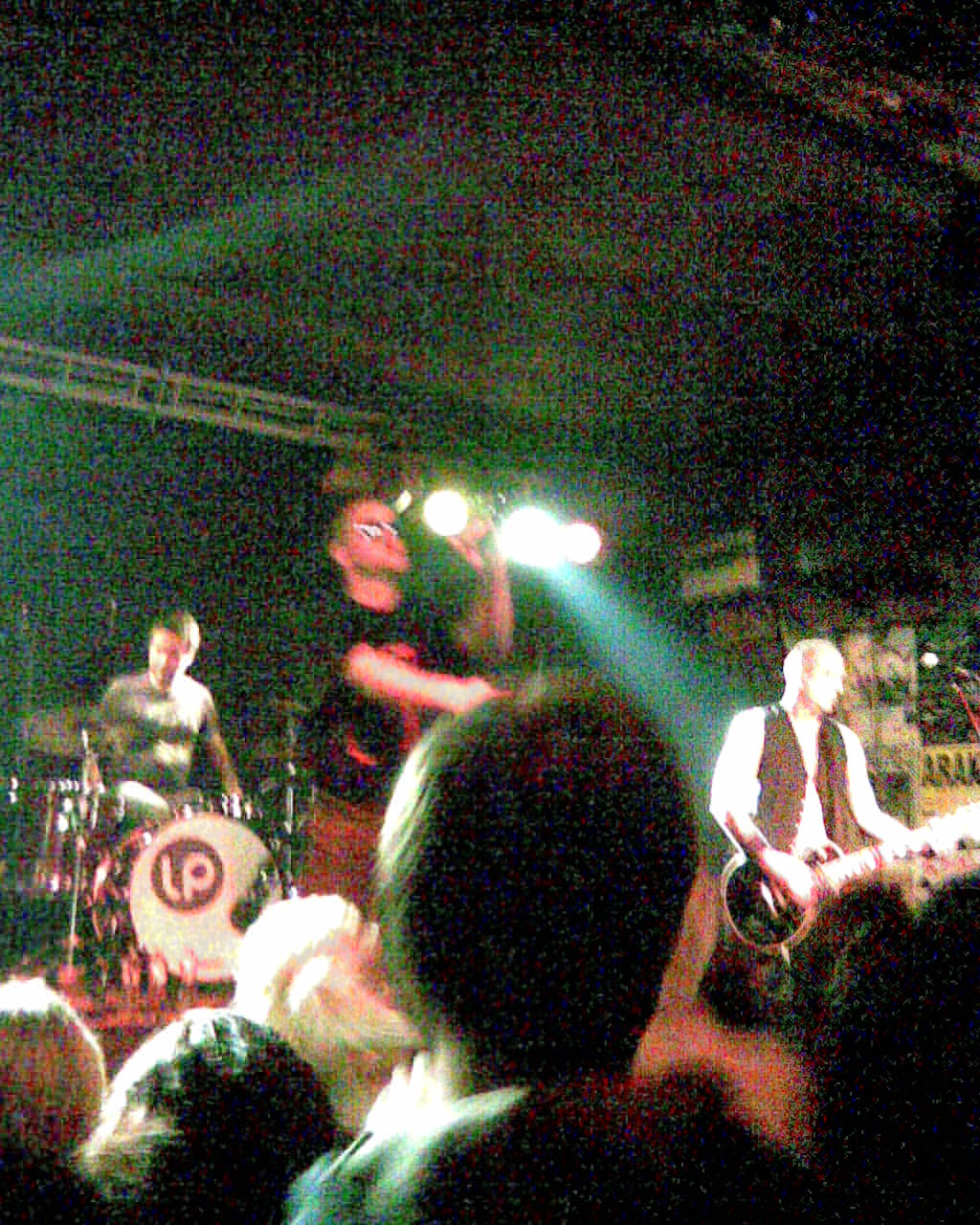 Slobodna Europa in Randal club (Bratislava)